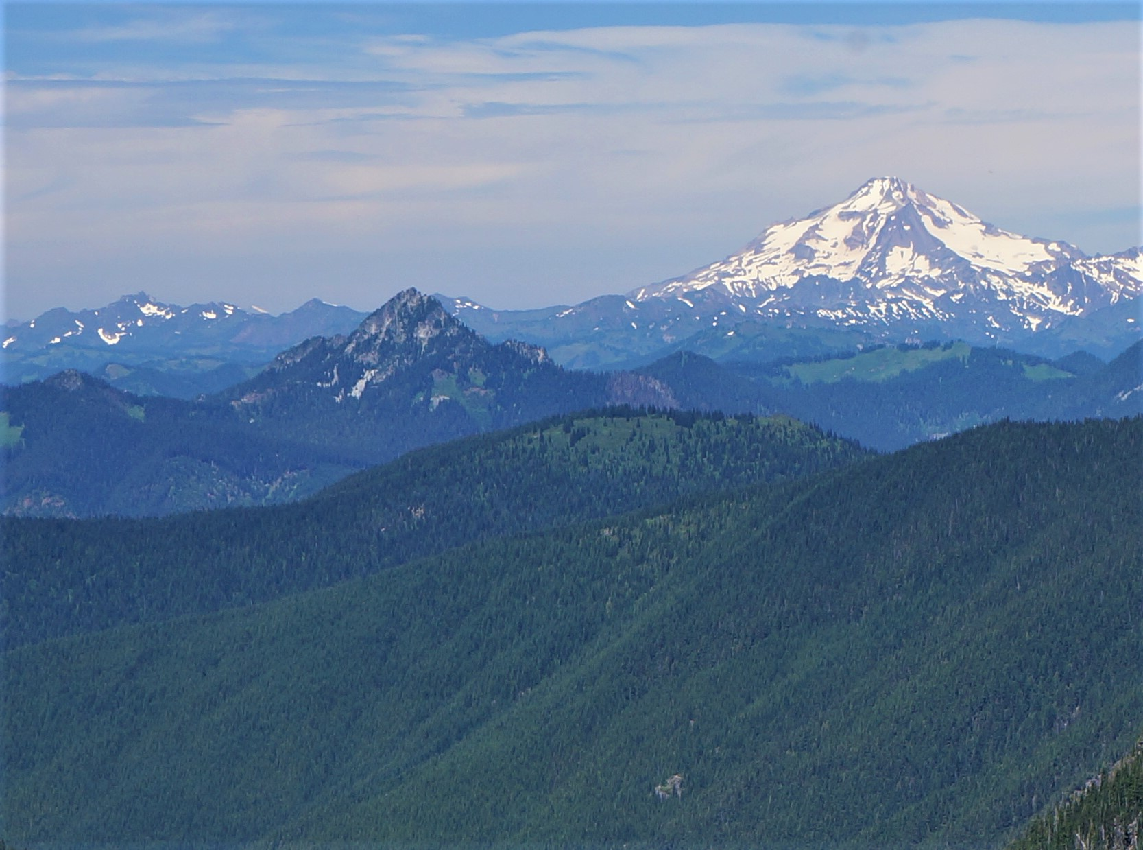 Mount Fernow and Glacier Peak looking north from Otter Point